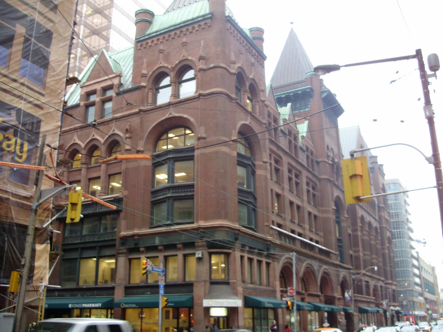 The Confederation Life Building in Toronto, Ontario.